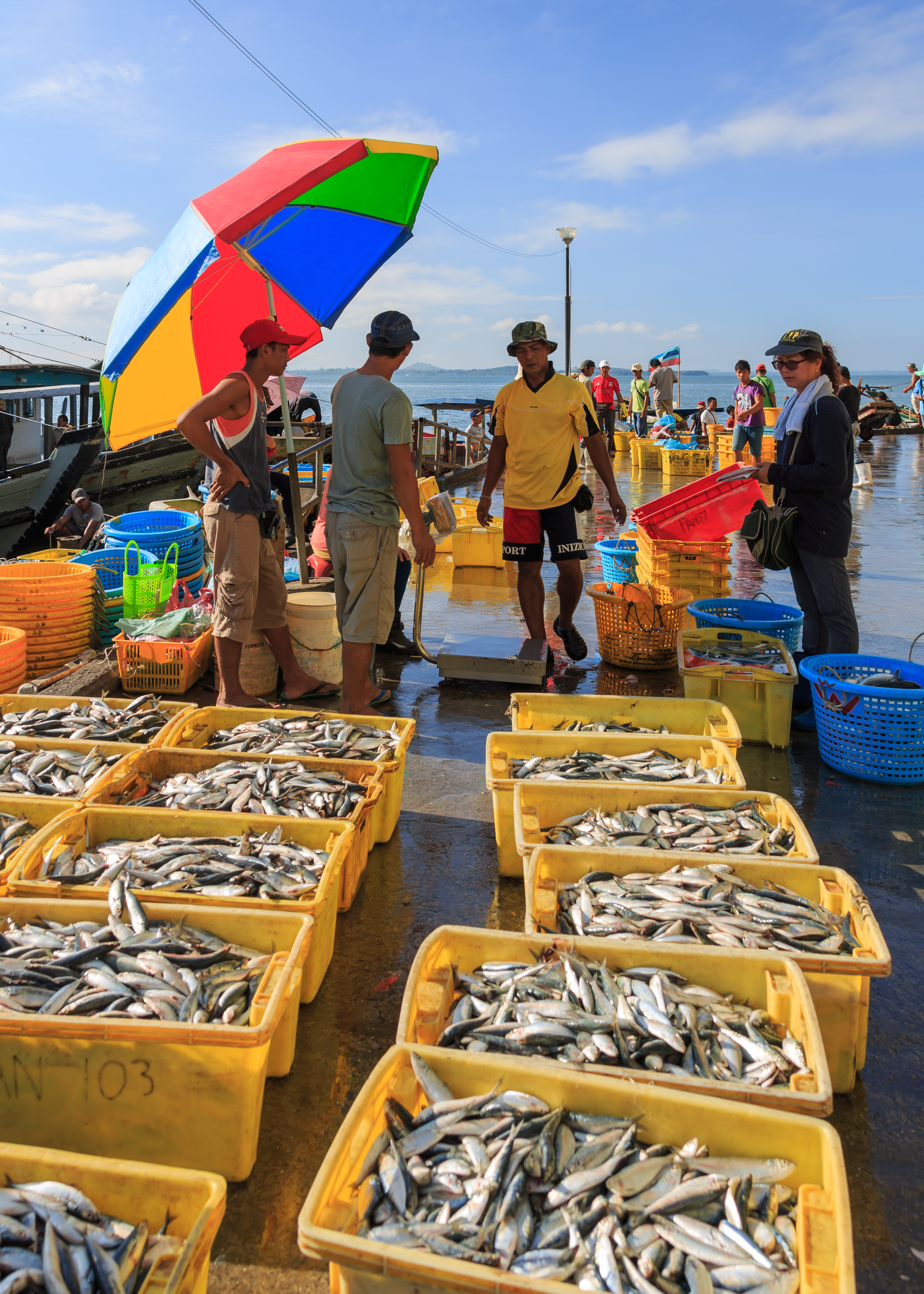 Sandakan, Sabah, Malaysia: Fishmarket in Sandakan Harbour; a dealer is negotiating with the fishermen